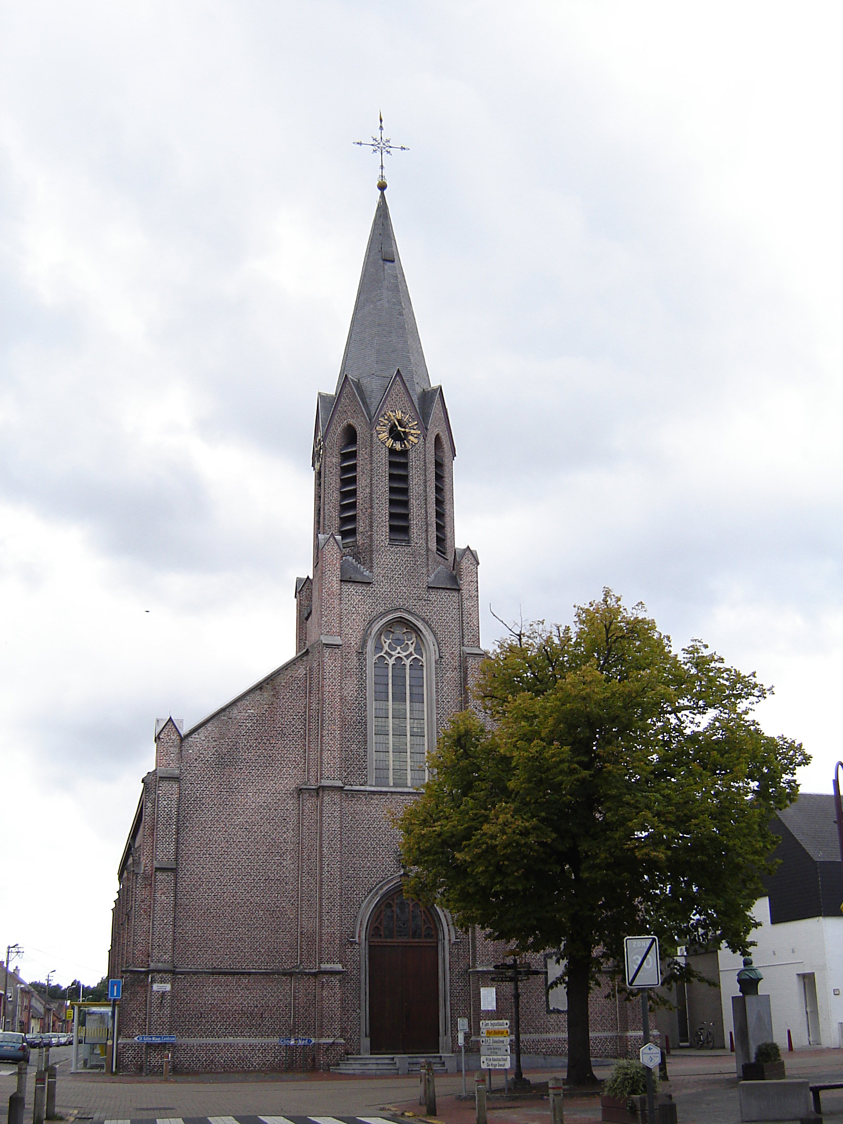 Church of the Assumption of Mary in De Klinge. De Klinge, Sint-Gillis-Waas, East Flanders, Belgium